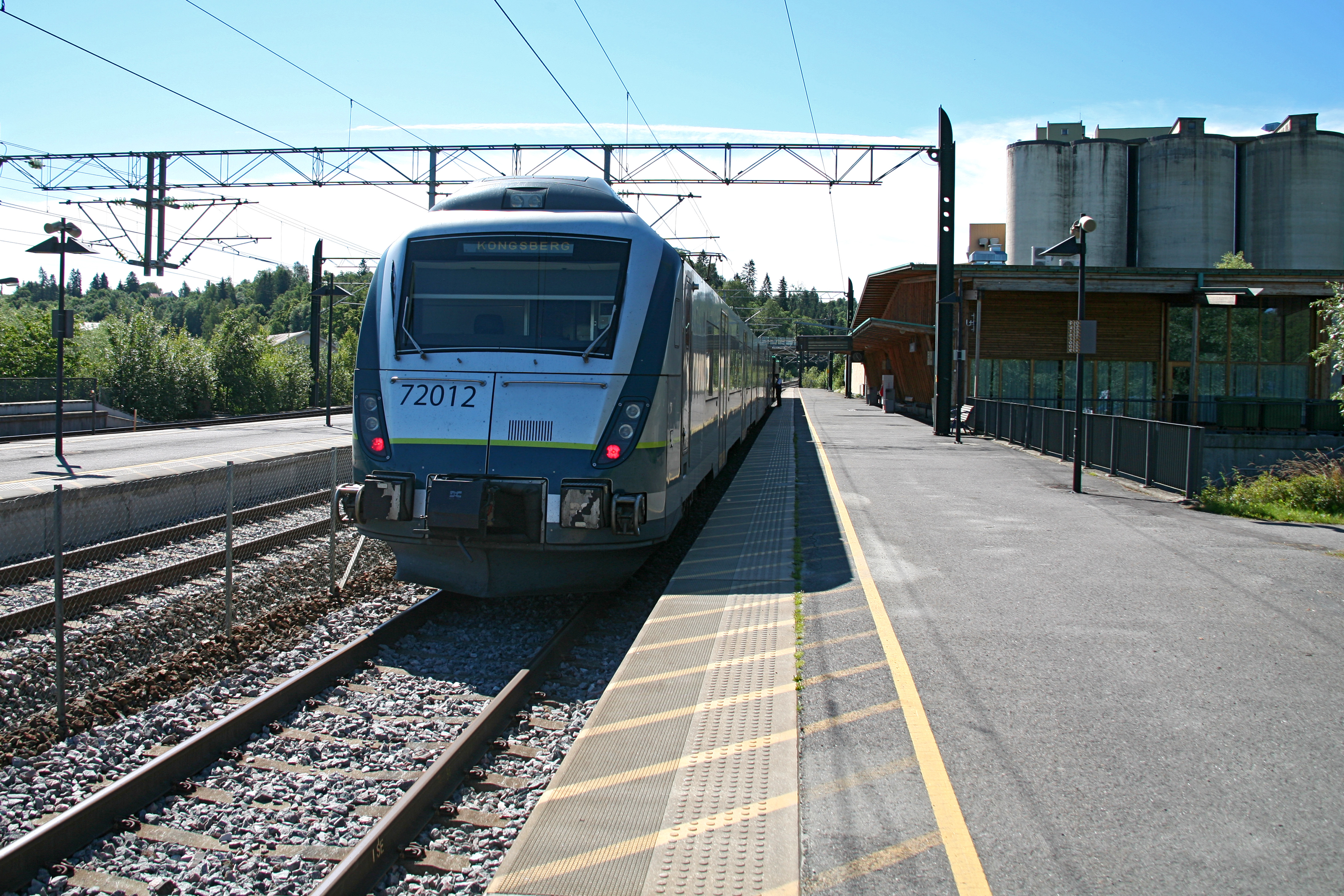 Picture of NSB commuter train 72.012 at Eidsvoll Railway Station